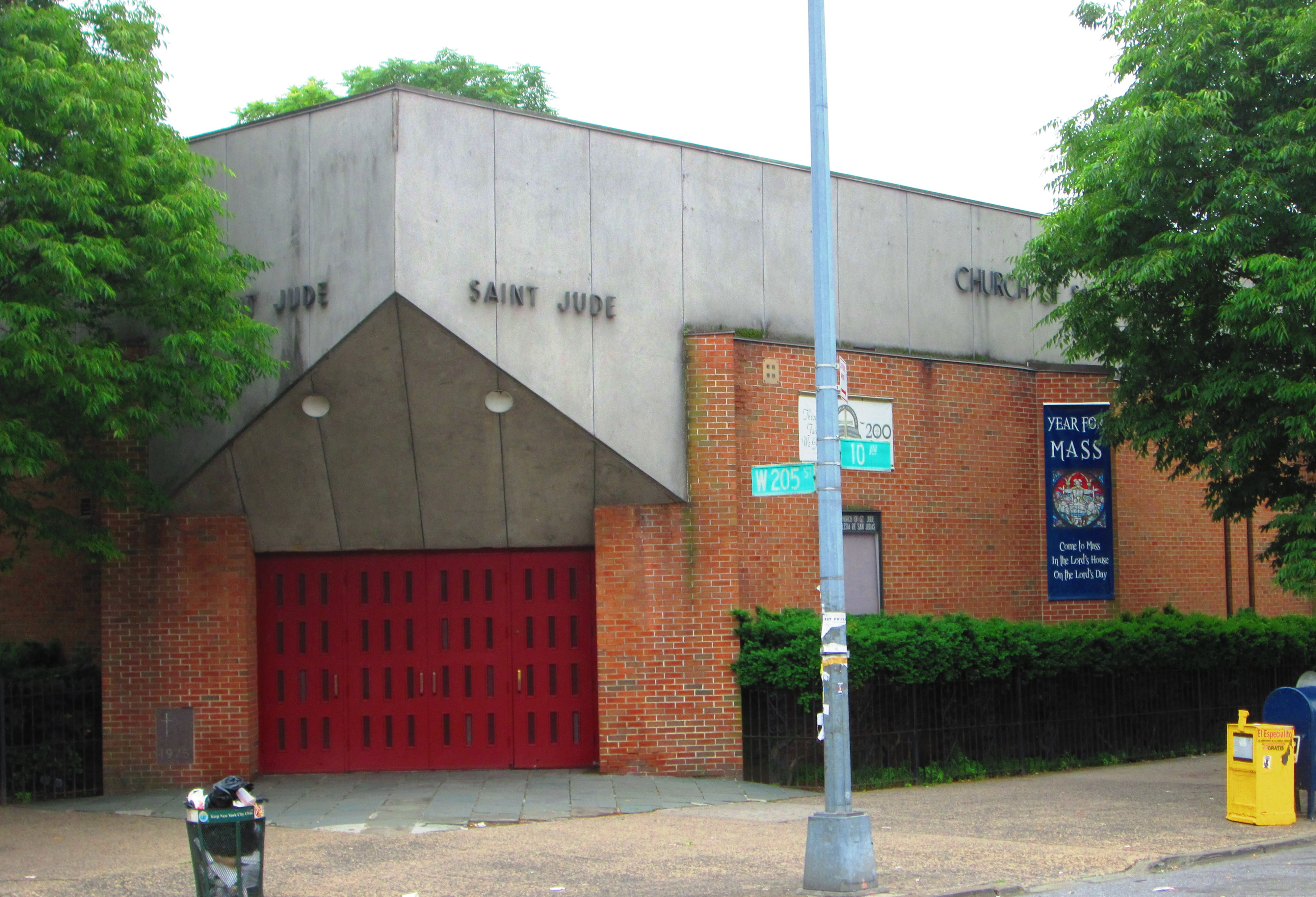 The Roman Catholic Church of St. Jude, located at 3815 Tenth Avenue at the corner of West 205th Street in the Inwood neighborhood of Manhattan, New York City, was built in 1975-76 and was designed by Clark & Warren in the Brutalist style. The School of St. Jude, around the corner at 431 West 204th Street and built in 1949-51 to designs by Voorhees, Walker, Foley & Smith, was originally the sanctuary as well. The parish dates from 1949. (Sources: From Abyssinian to Zion (2010), NYC GIS map (sanctuary) and NYC GIS map (school))